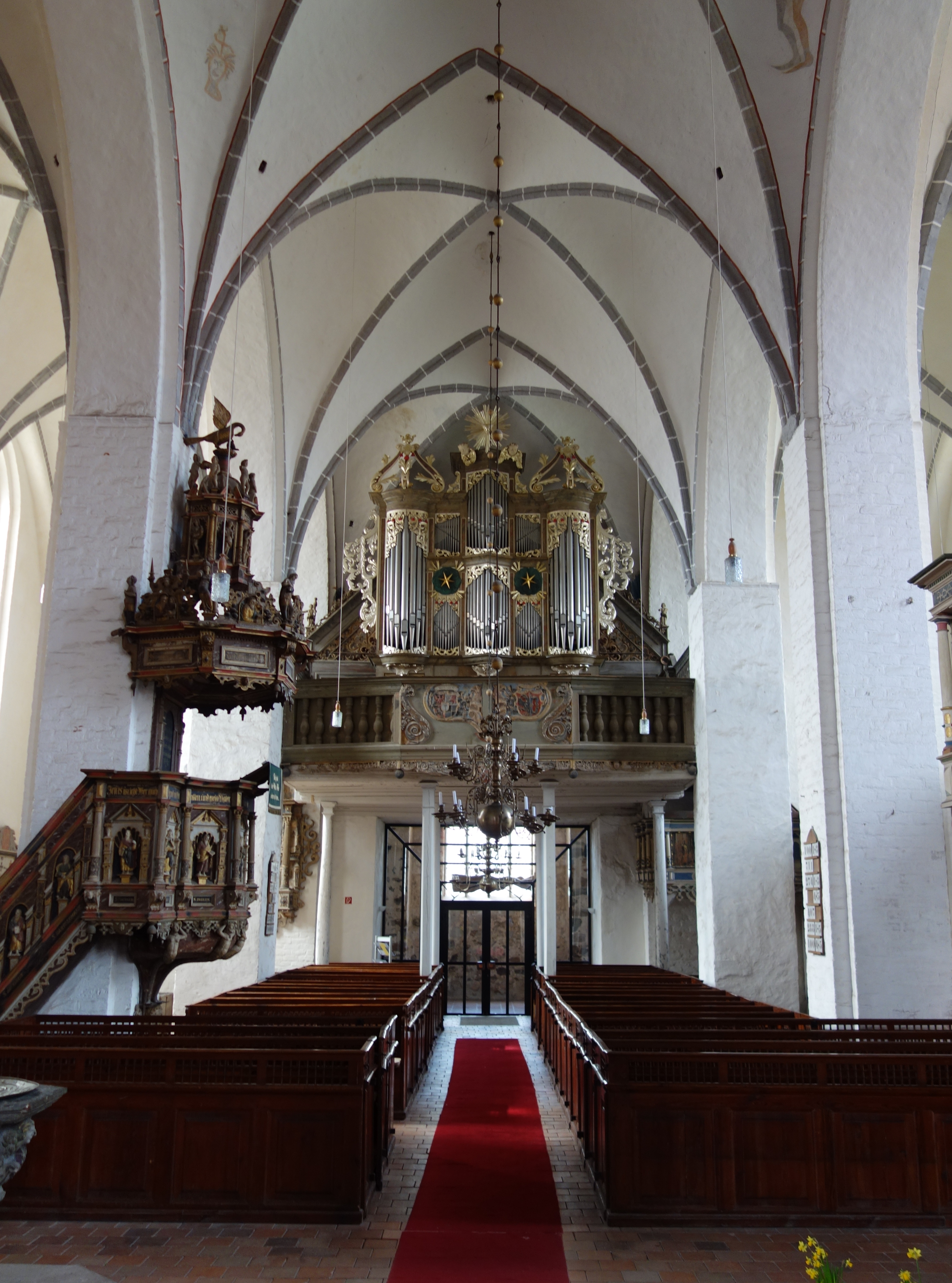 Western view with pipe organ of main vessel of church St. Peter and Paul, Wusterhausen municipality, Ostprignitz-Ruppin district, Brandenburg state, Germany